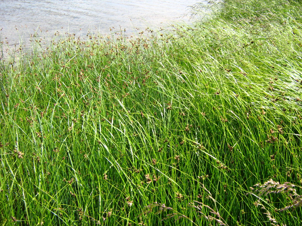 Scirpetum maritimi - subhalophyte littoral plant association (Bolboschoenus maritimus - the light green shoots and Schoenoplectus tabernaemontani - the dark green shoots). Baltic Sea, Poland.